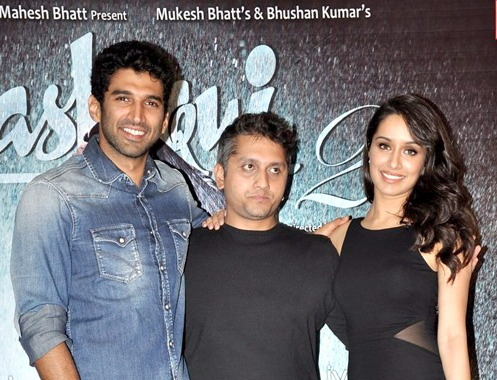 Shraddha Kapoor at the success bash of 'Aashiqui 2' at Escobar